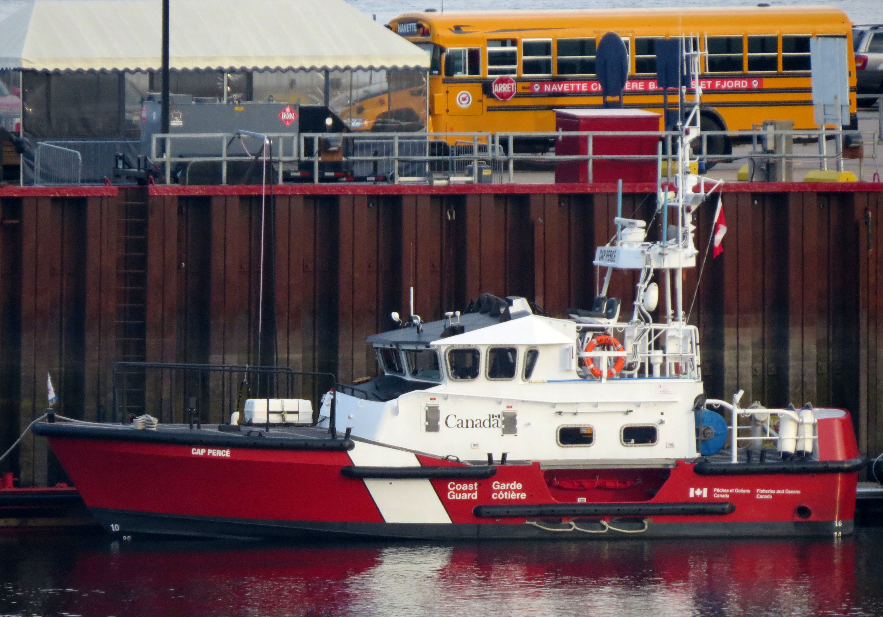 CCGS Cap Perce at Tadoussac, Quebec